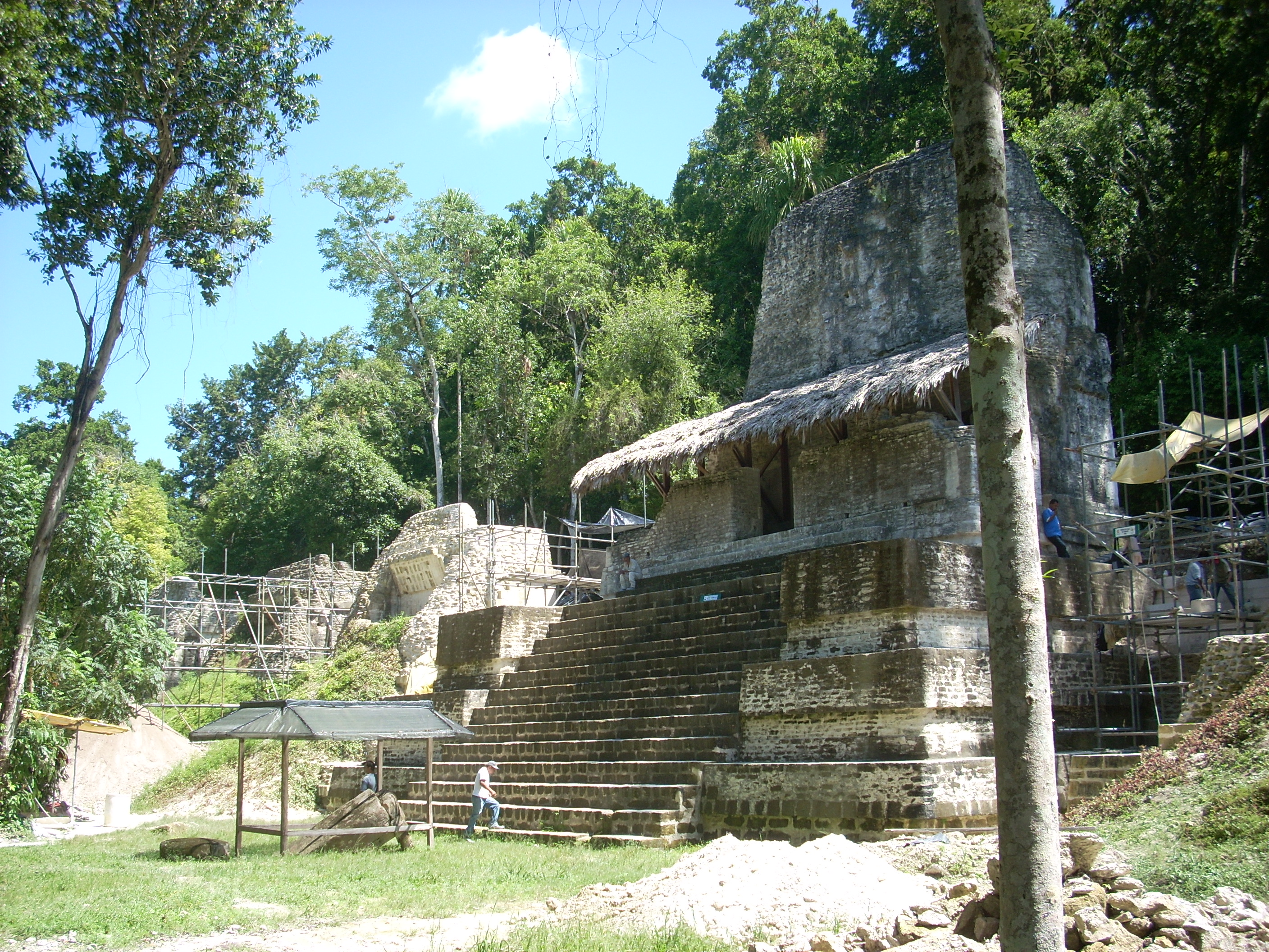 Temple 5D-96 in the Plaza of the Seven Temples, Tikal, Peten, Guatemala.